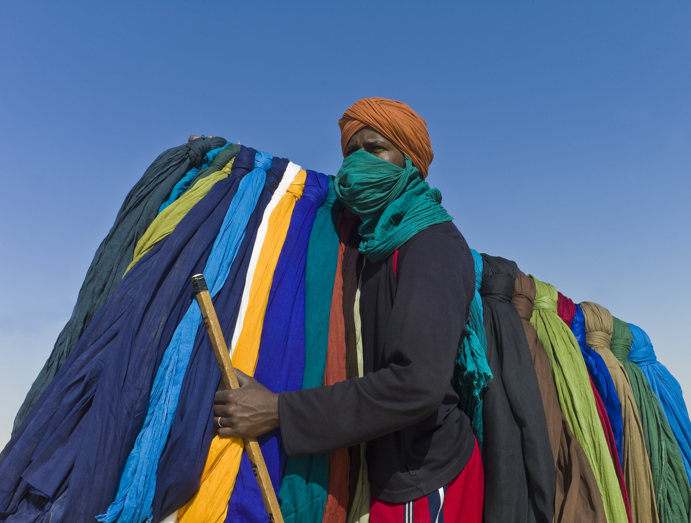 Turban seller at Festival au Désert near Timbuktu, Mali 2012